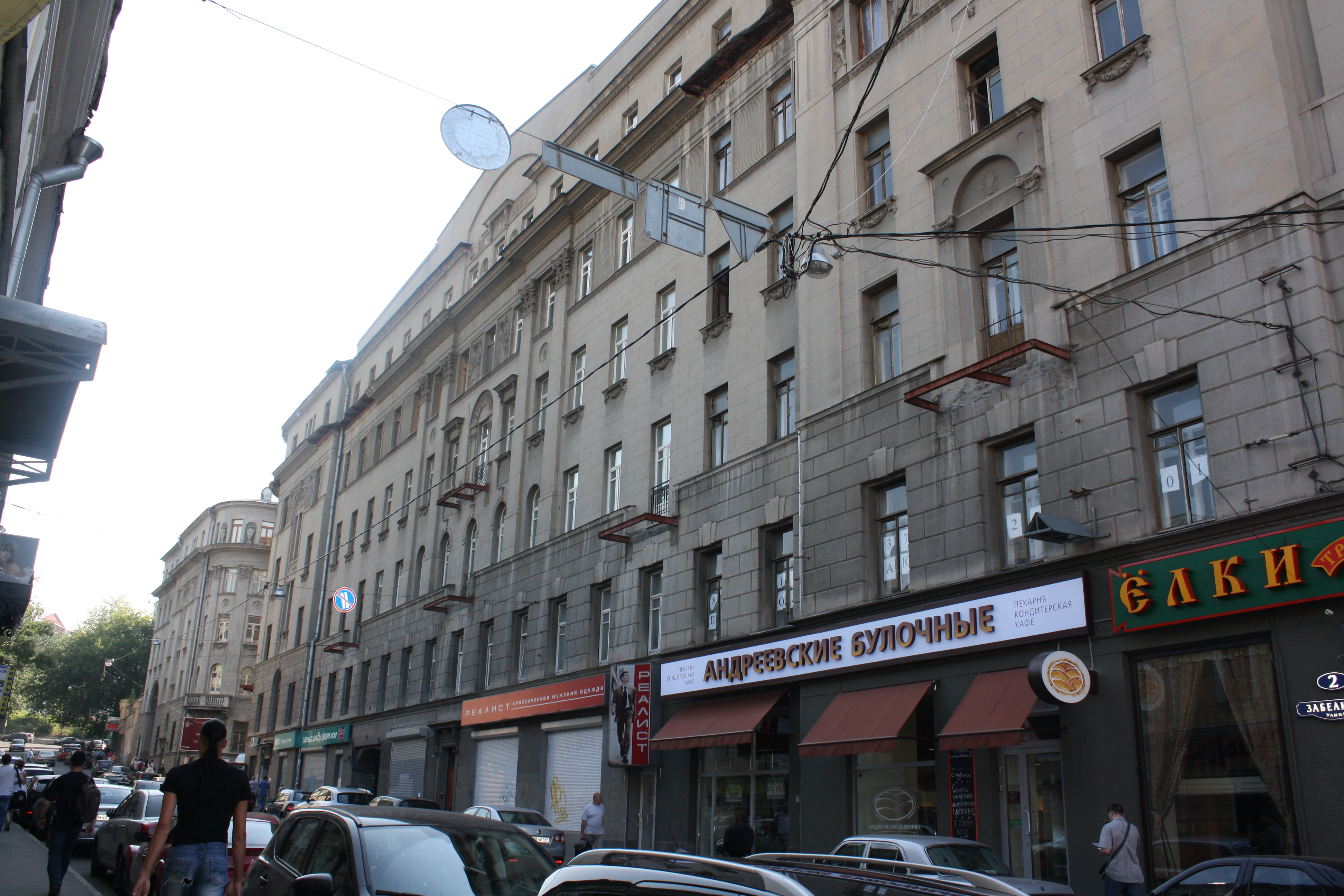 Zabelina Street, Moscow